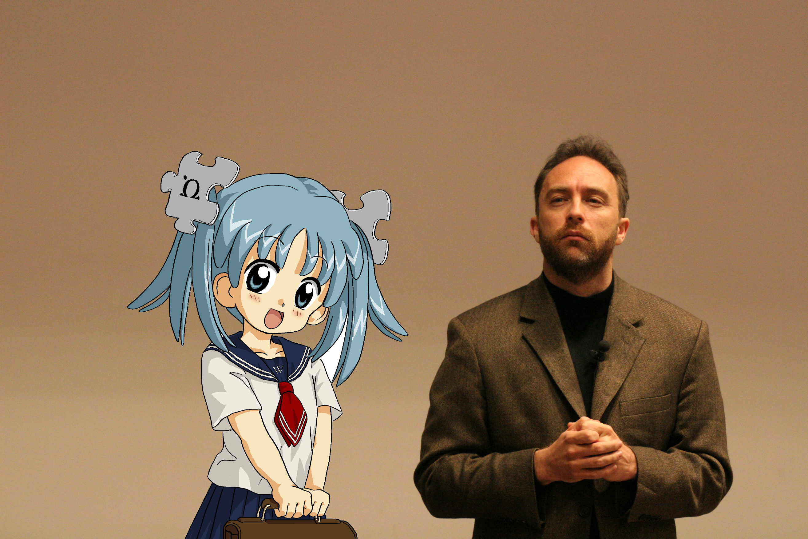 Wikipedia founder Jimbo Wales (right) and Wikipe-tan (left) speaking in Brussels, Belgium.